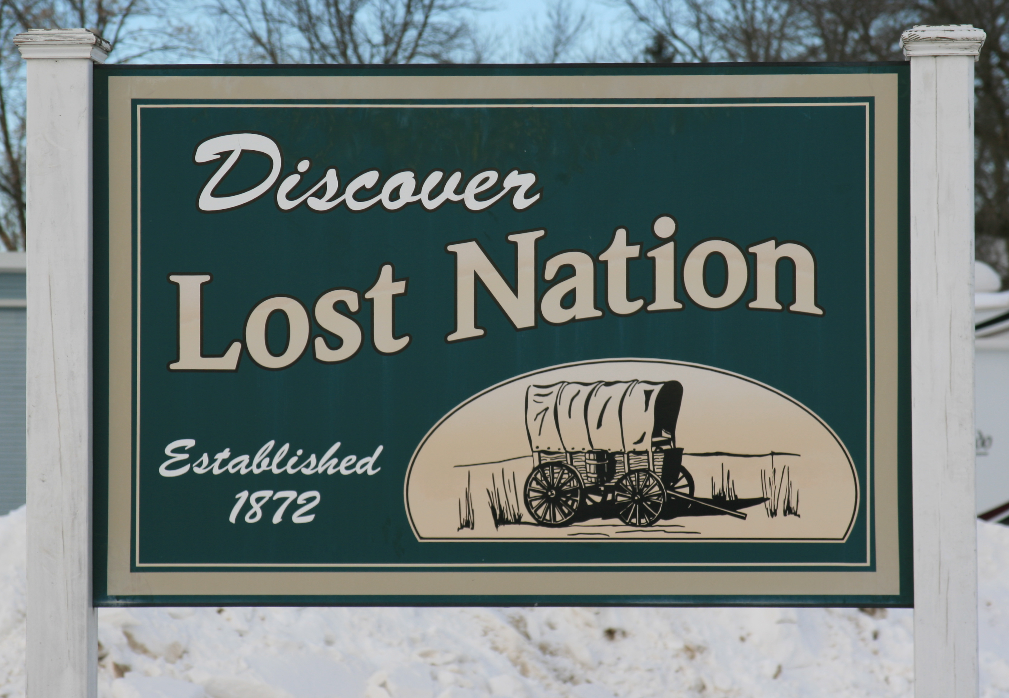 Welcome sign for Lost Nation, Iowa